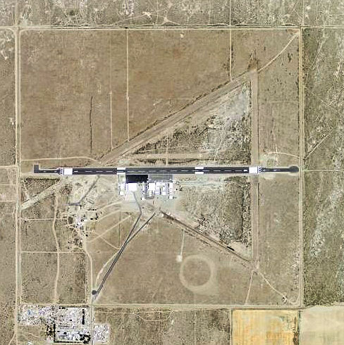 USGS digital orthophoto of El Mirage Field, an airport in California, United States